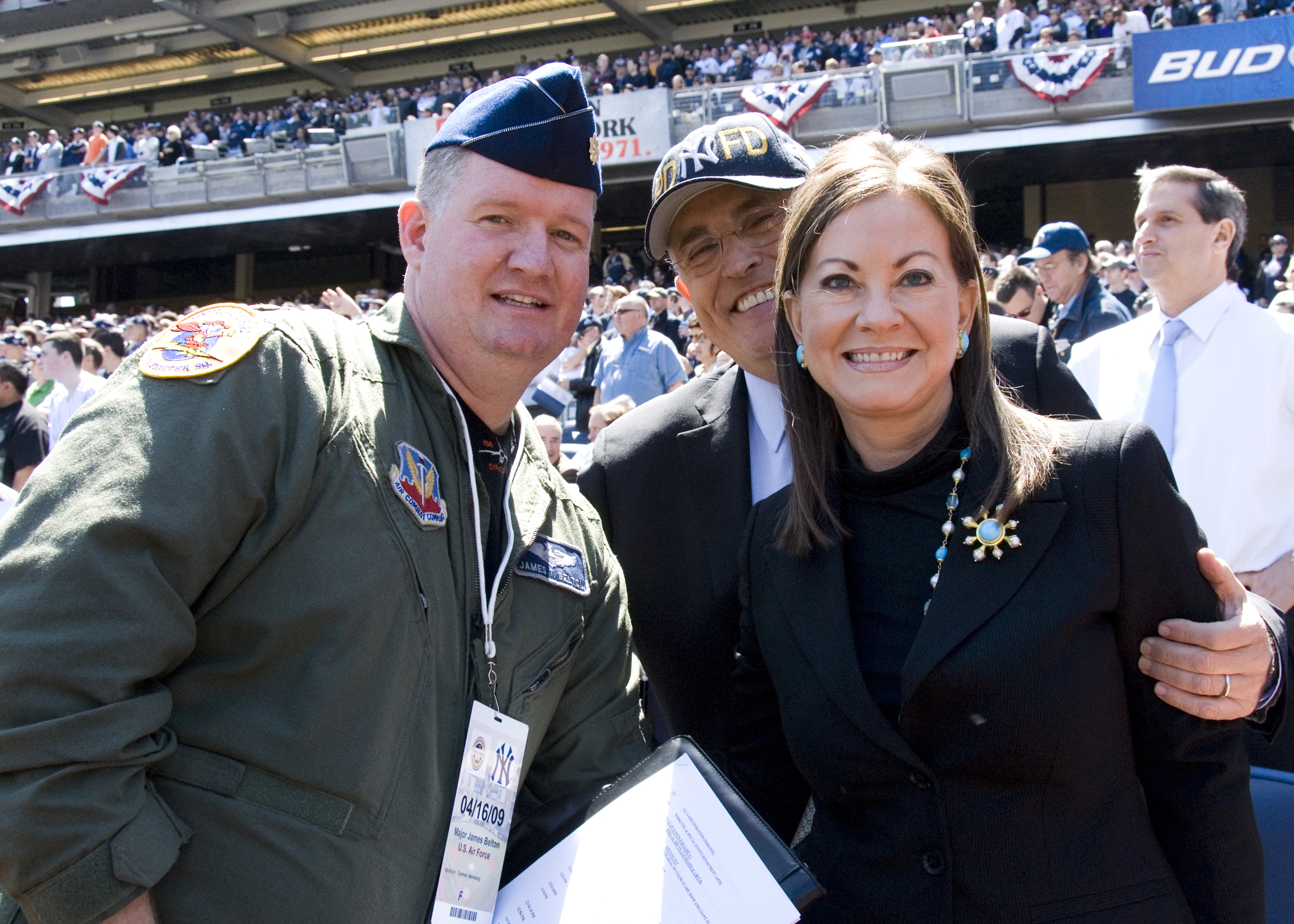 New York Air National Guard Maj. James T. Belton poses with former New York City Mayor Rudy Giuliani and wife Judith Giuliani at the “New” Yankee Stadium in Bronx, NY on 16 April 2009. Belton was assisting in the Four F-16C Fighting Falcons from the 174th Fighter Wing, Syracuse New York Air National Guard with the fly-by.